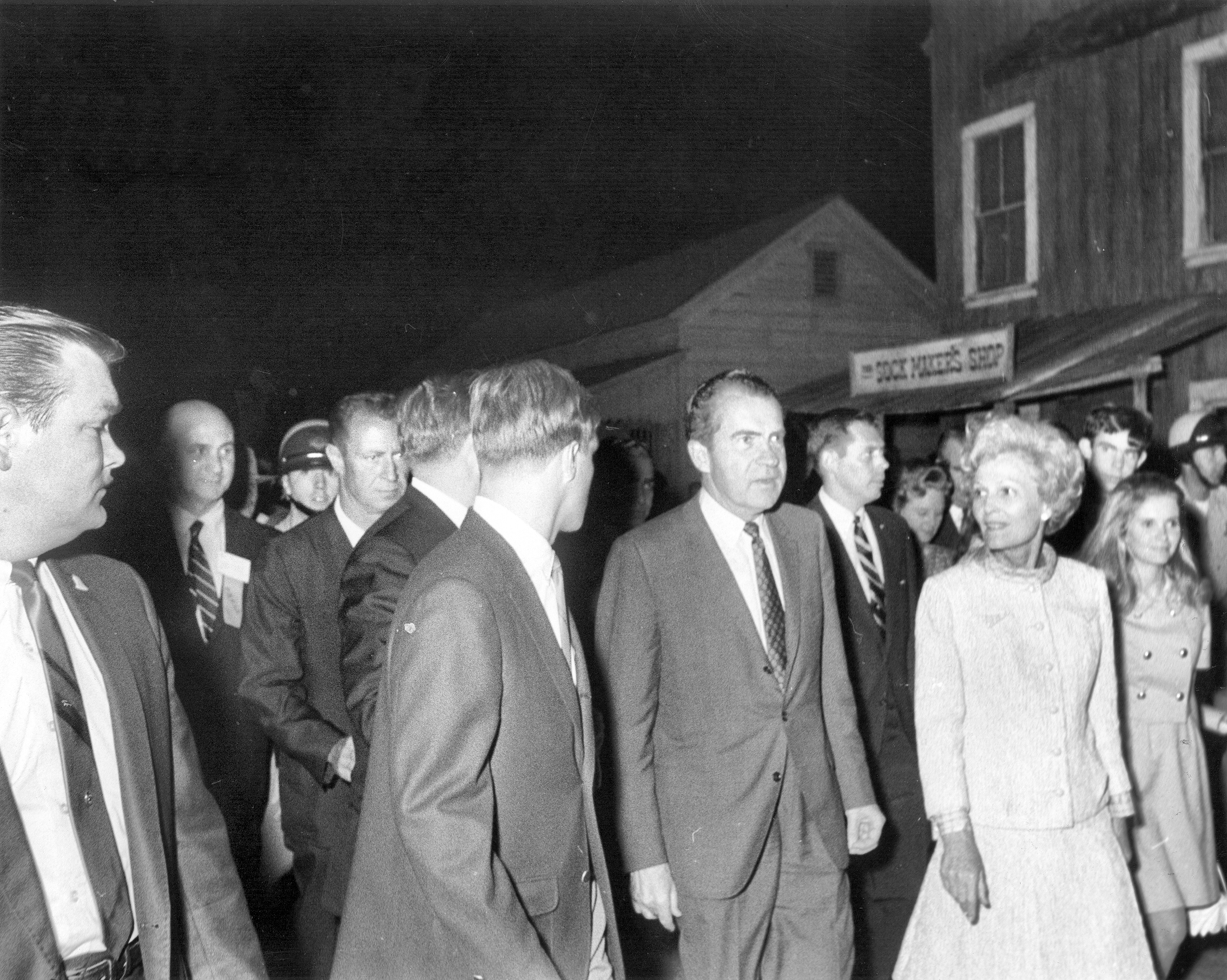 Presidential candidate former Vice President Richard Nixon and his wife Pat, as well as daughters Tricia and Julie (not in photo) visit Knott's Berry Farm in Southern California.